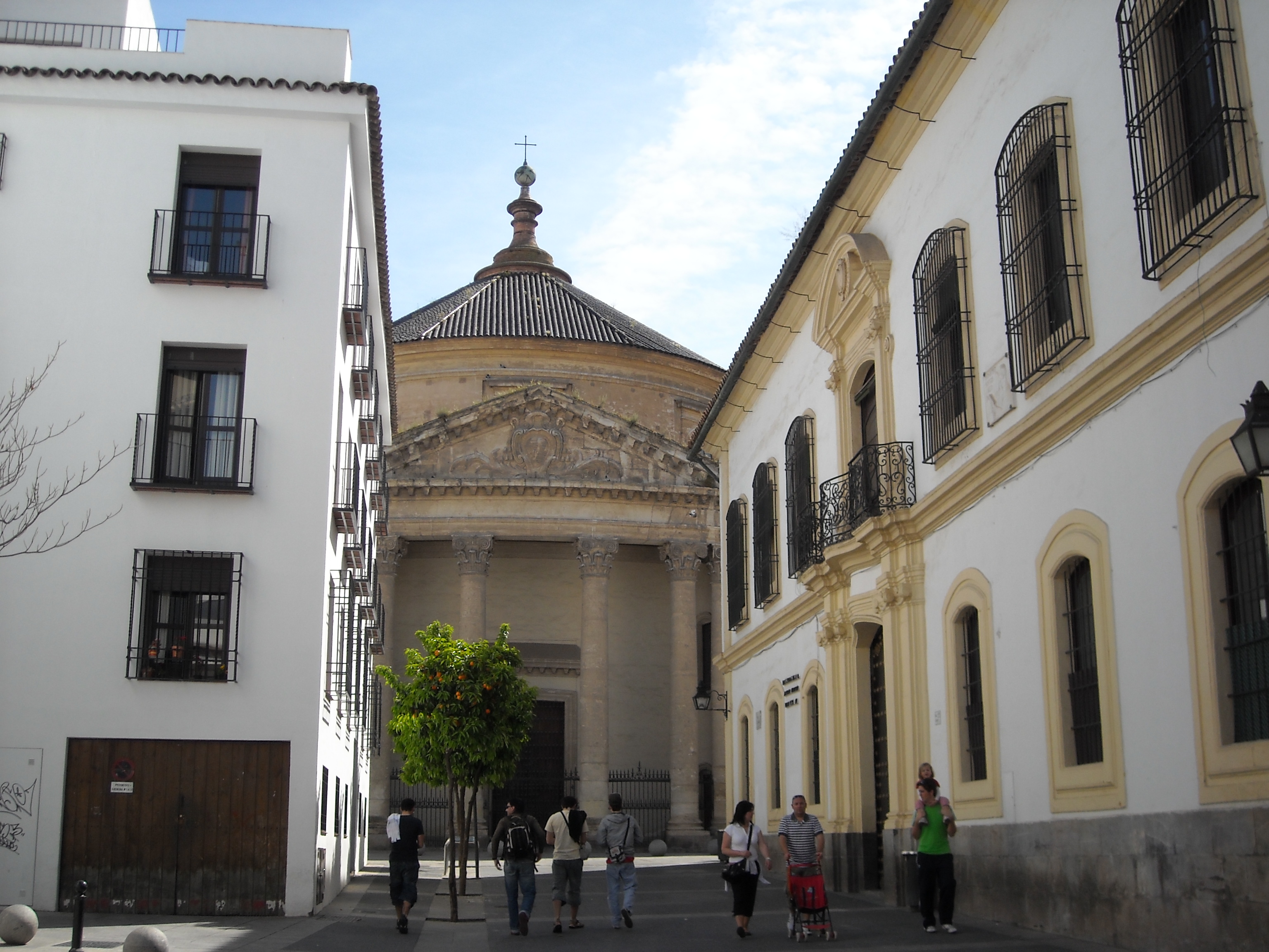 Church of St. Victoria, Córdoba, Spain